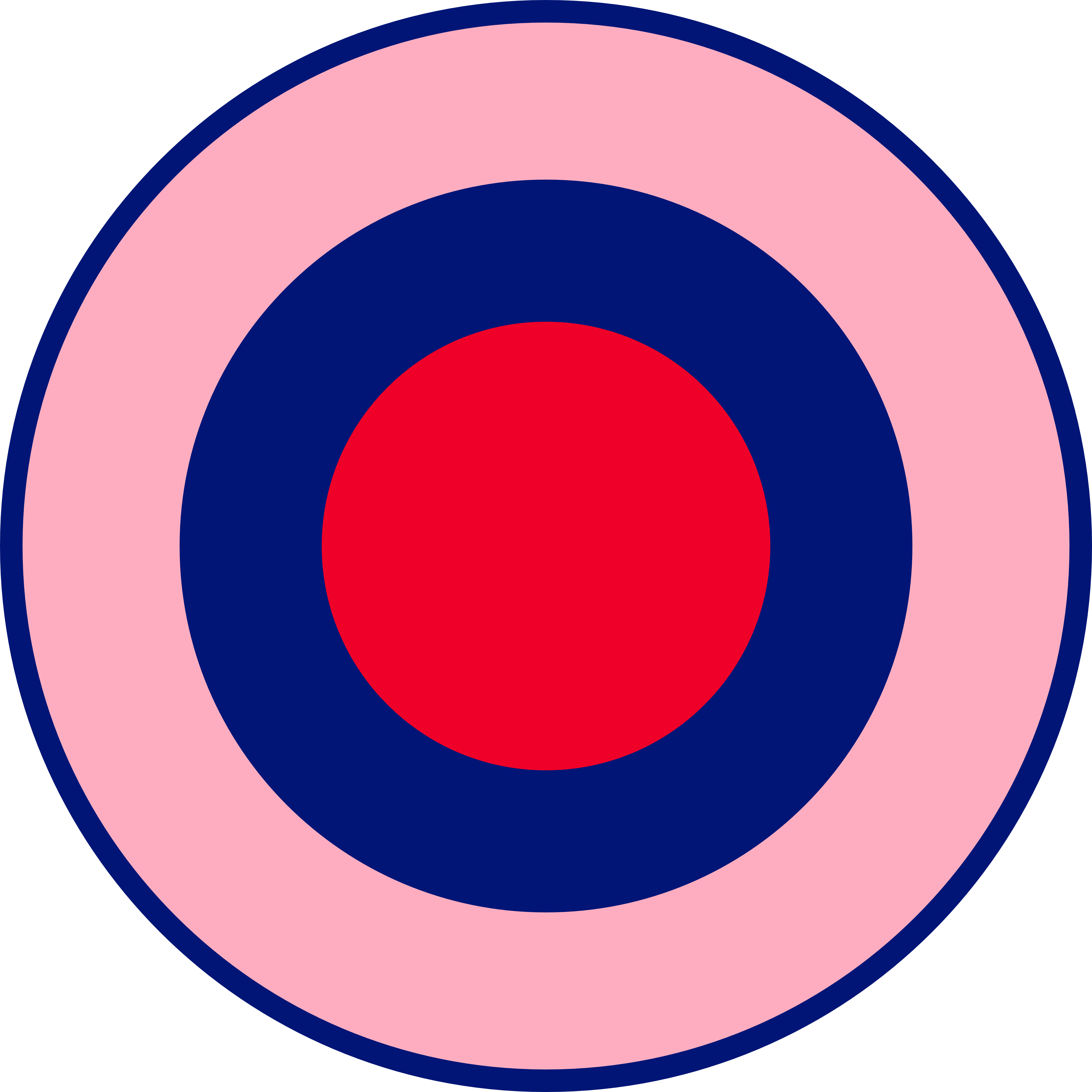 Based on this picture [1]